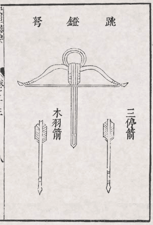 Ancient drawing of a Chinese crossbow.